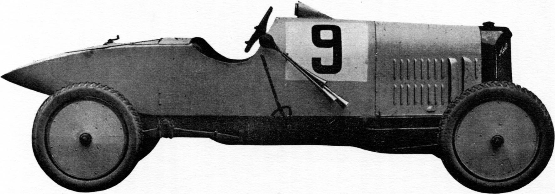 Renautomobile 30_PS_Apollo_(APOLDA)